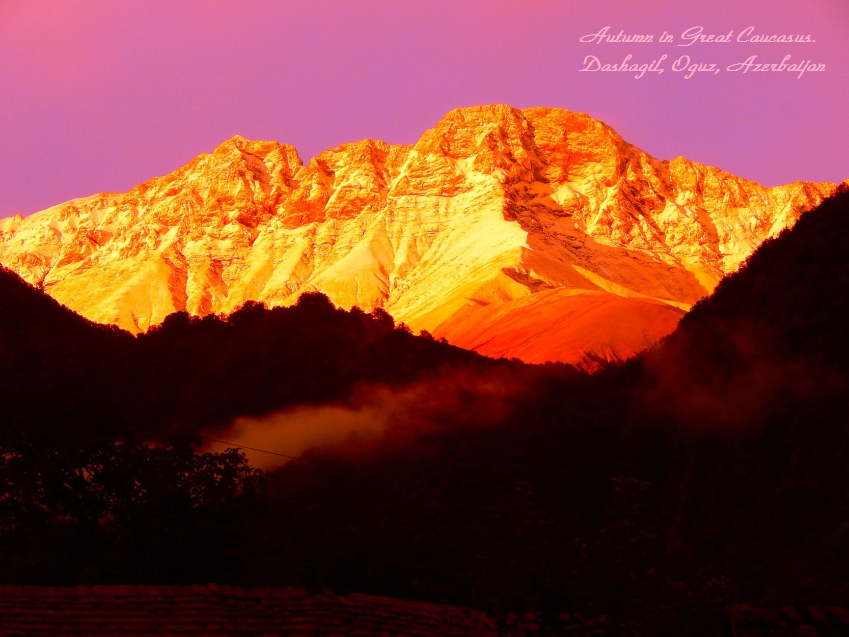 Kisir dag